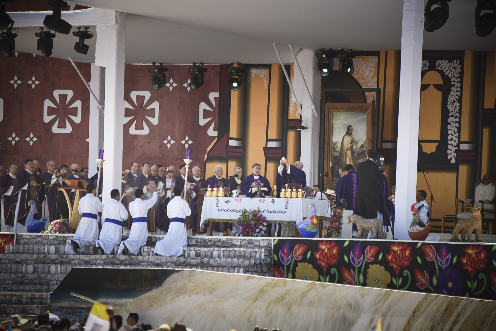 SAN CRISTOBAL, MEXICO: Pope Francis arrives at San Cristobal de las Casas, Mexico, Monday, Feb. 15, 2016. He will be joining Mexico's Indians in celebrating Mass in three languages native to them, Chol, Tzotzil and Tzeltal. The Vatican recently approved the use of these languages use in the liturgy. Photos by Marko Vombergar/ALETEIA